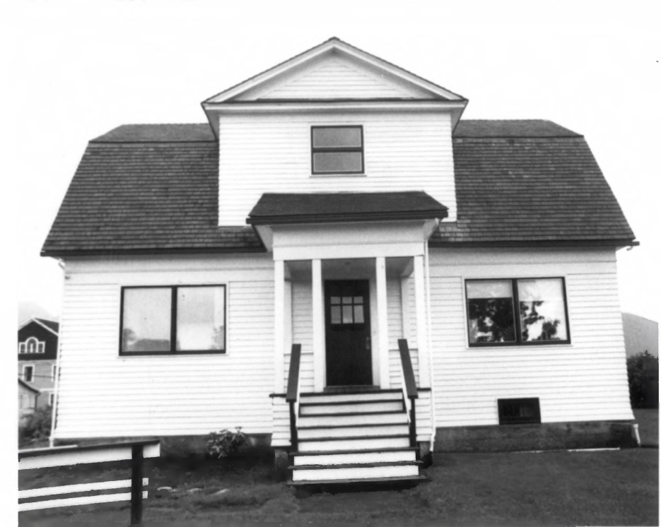 The Forest Service House, aka the US Coast Guard and Geodetic Survey Seismological and Geomagnetic House, Sitka, Alaska.